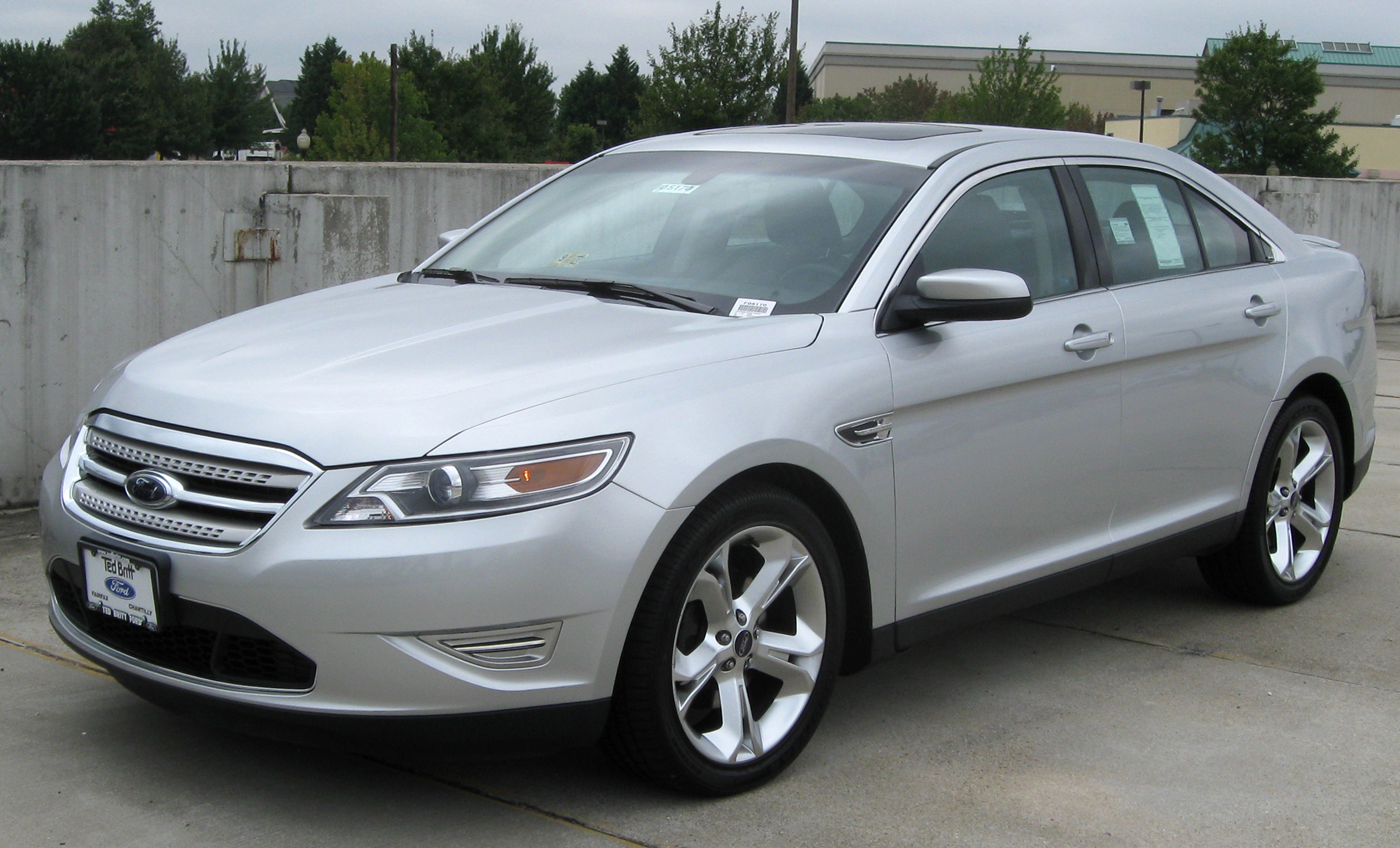 2010 Ford Taurus SHO photographed in Fairfax, Virginia, USA.